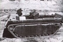 LVT3 produced by Borg Warner used the first time in the invasion on Okinawa.